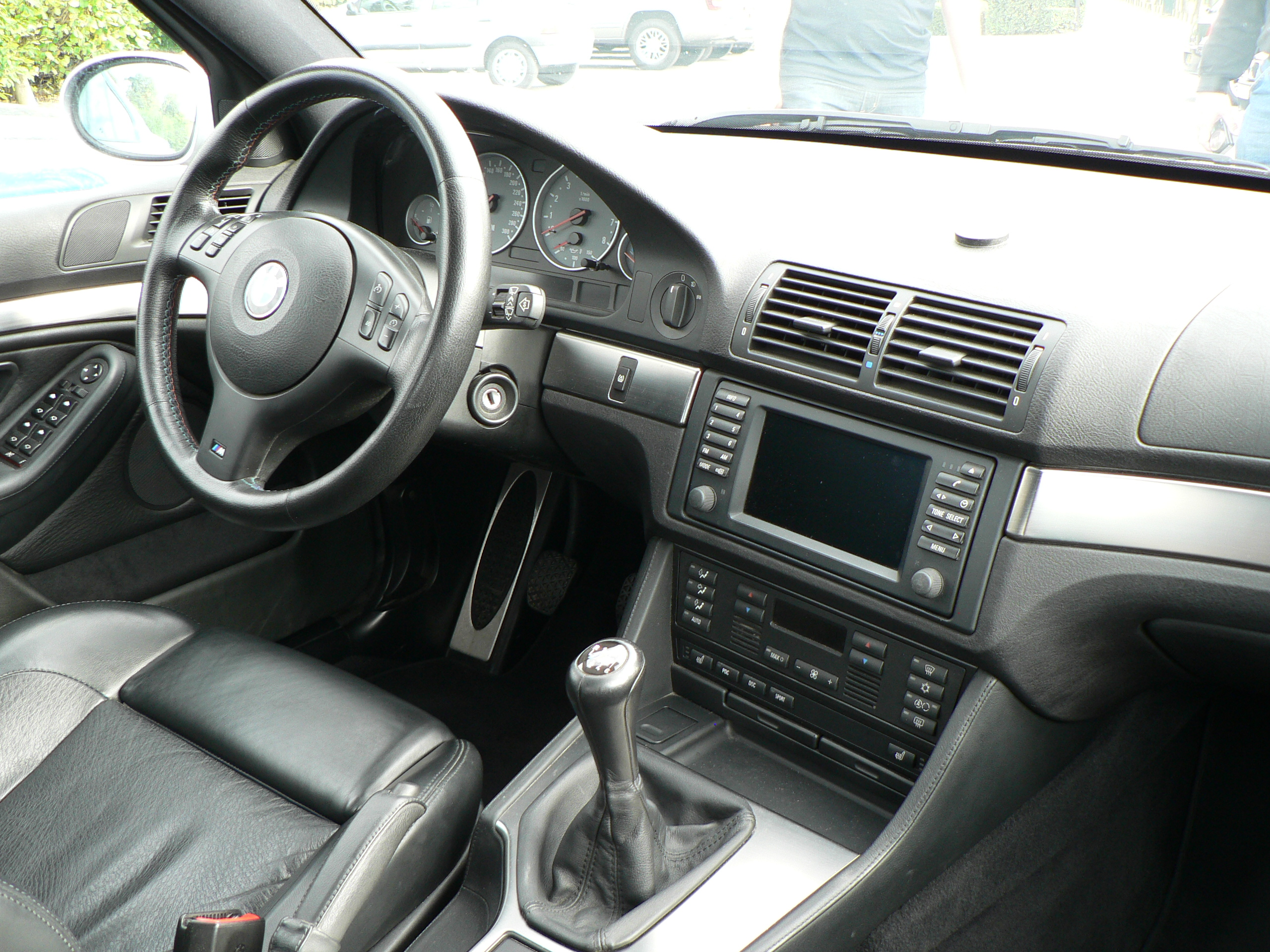 Cockpit of a BMW M5 E39